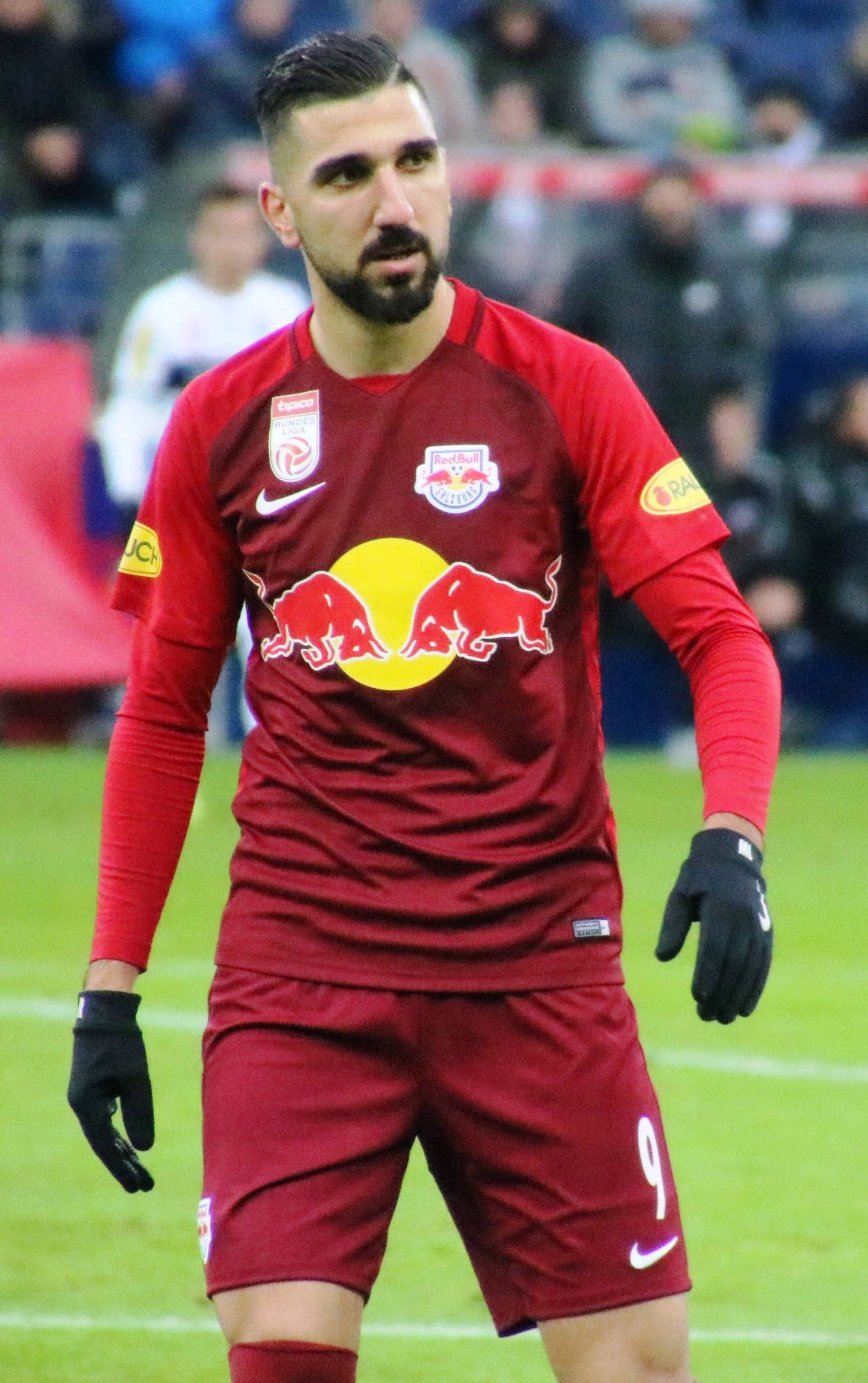 Austrian Bundesliga 15th round league match